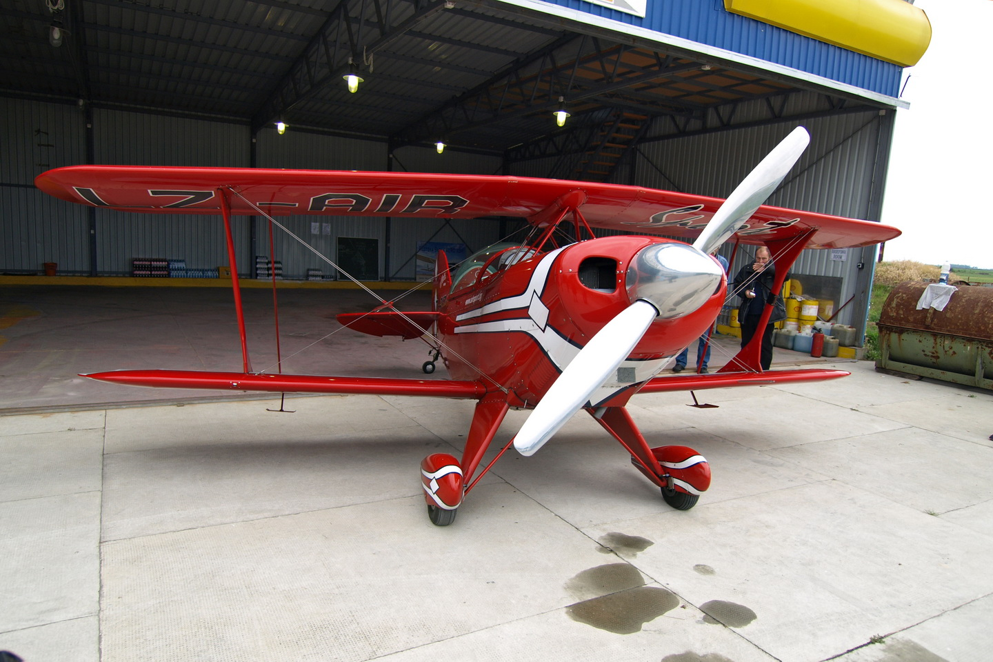 Airshow on Čenej airport, Novi Sad.